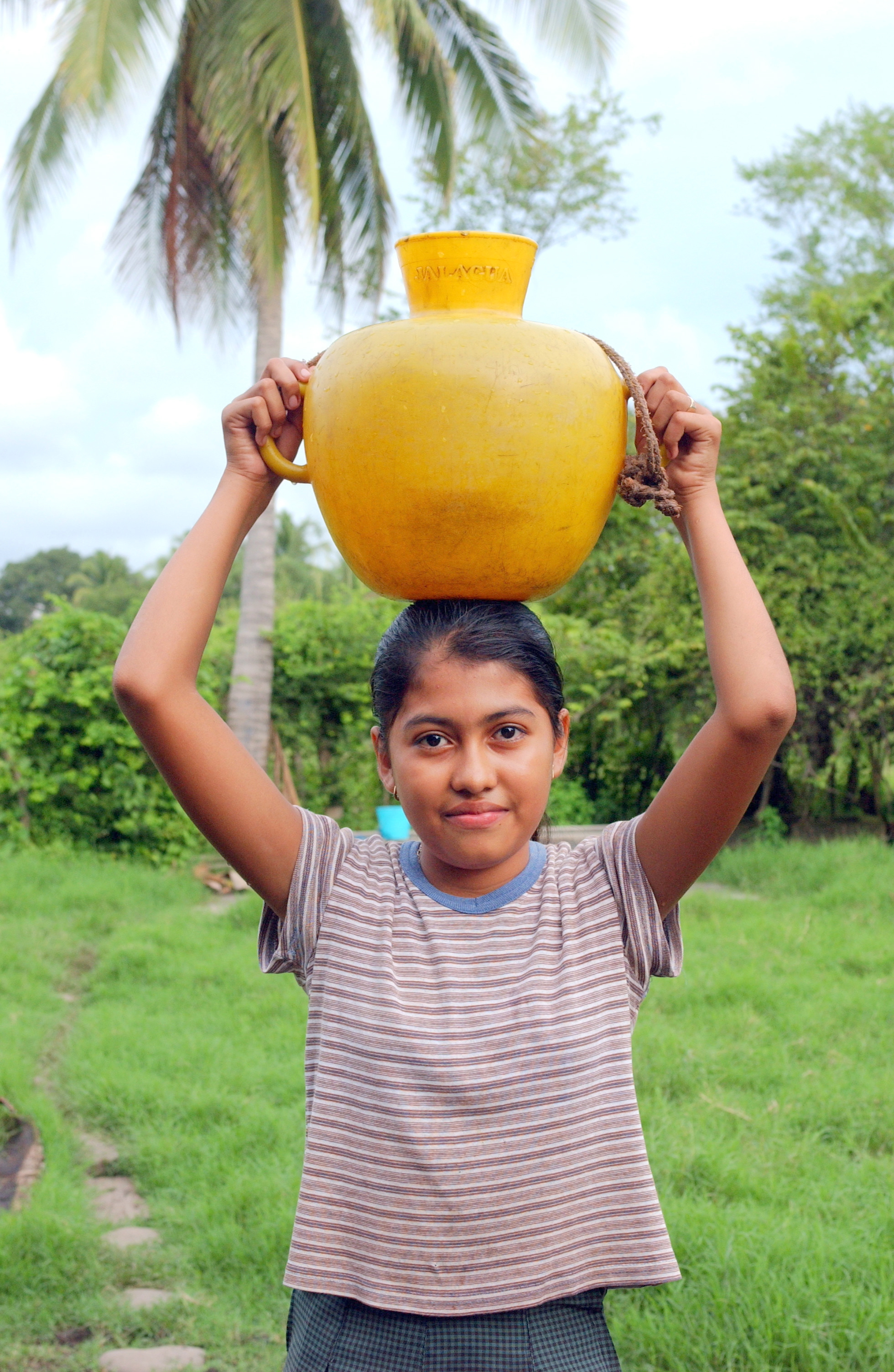 Patricia (12) from San Francisco Menendez in El Salvador getting water. Trócaire began supporting communities in El Salvador in the 1970s and helped to expose some of the worst atrocities of the civil war. (Photo: Kim Haughton)